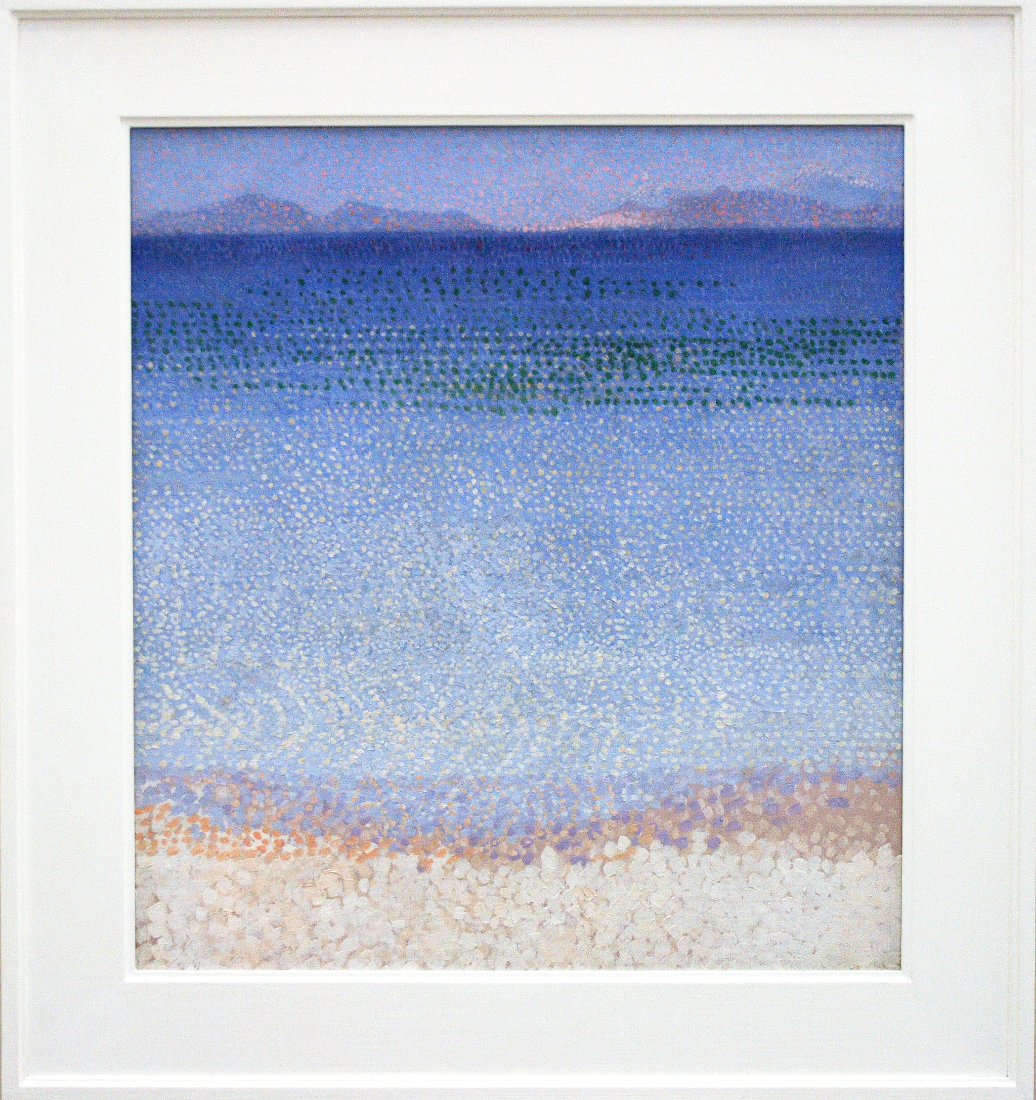 Painting of Cross in the Orsay Museum, Paris - (Iles de Hyeres, Var)